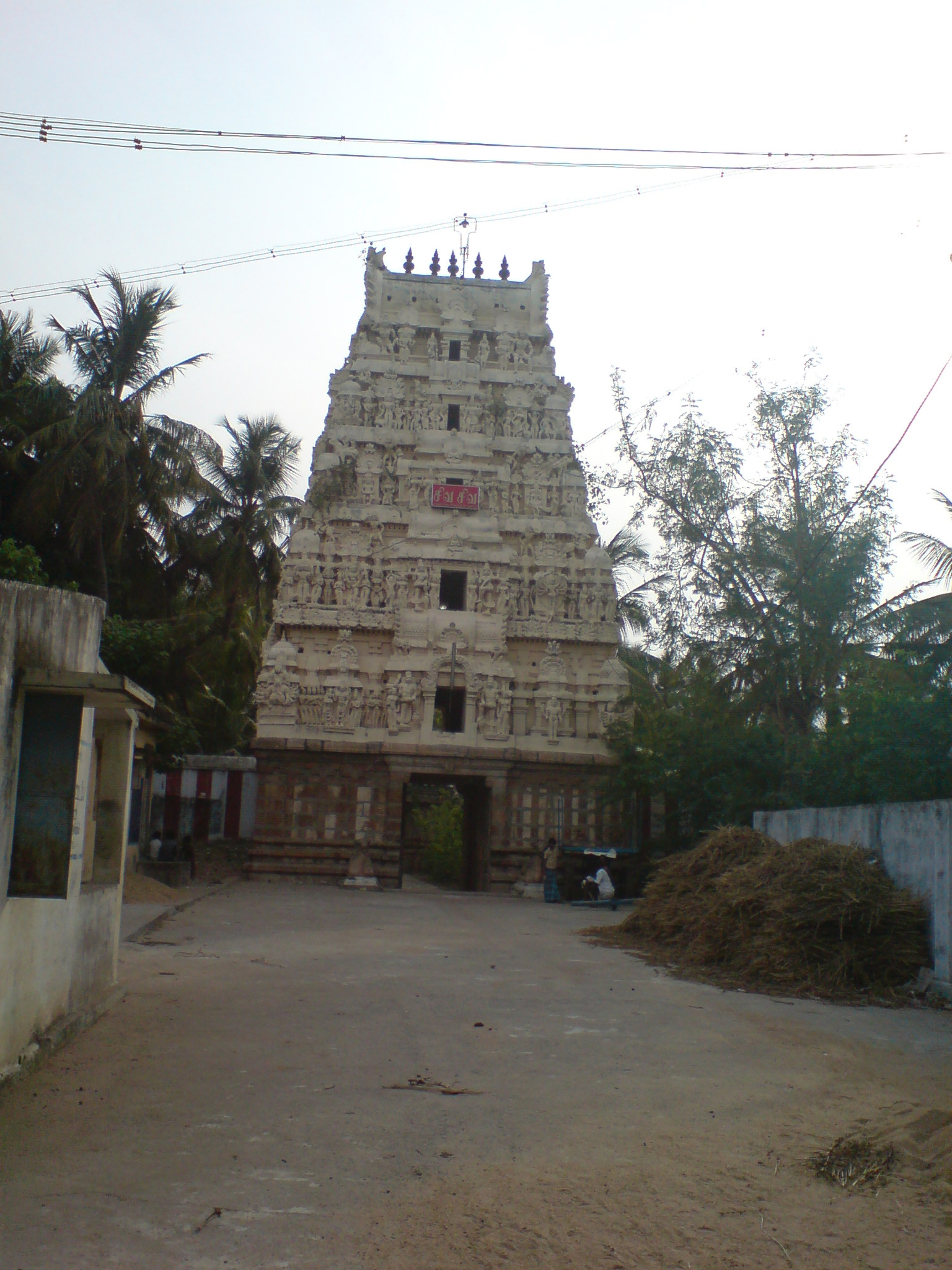 Hindu temple, gopuram